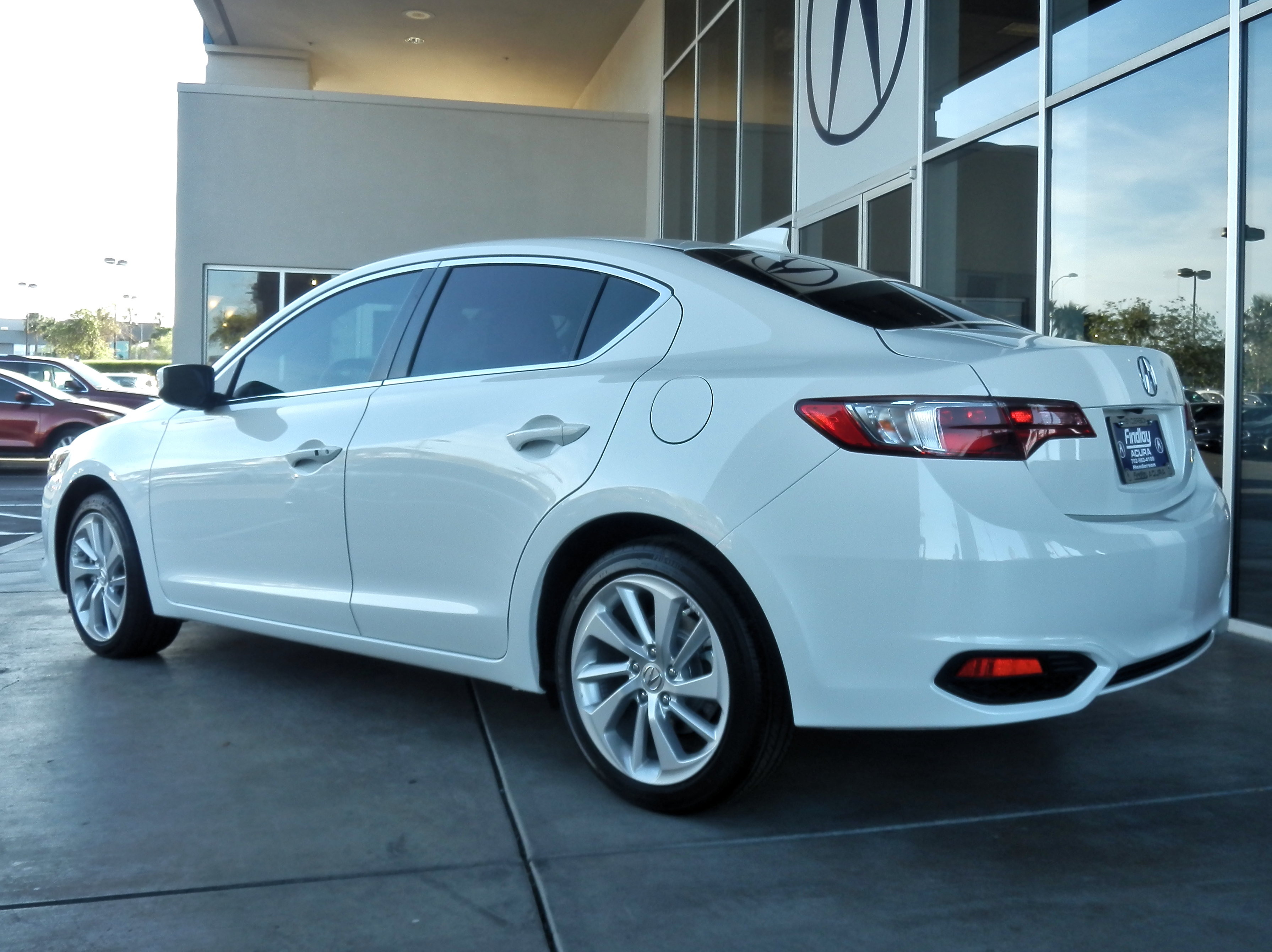 Acura ILX in Las Vegas